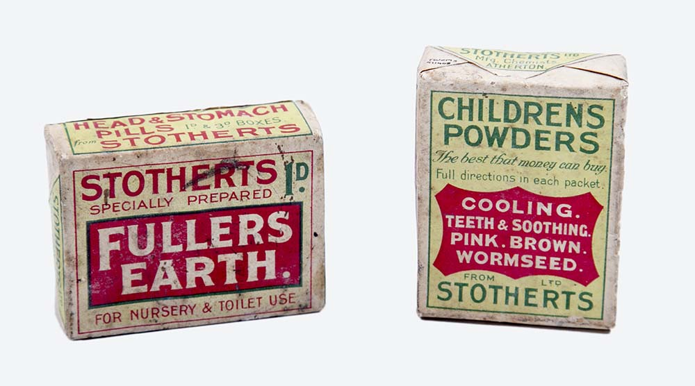 Box of Fullers Earth for nursery and toilet use, made of cardboard and paper in green, white and red. Original price, 1d. Length: 69 mm Width: 52 mm Depth: 23 mm Manufactured by Stotherts Ltd, Atherton, England, UK, 1914 - 18. Copyright Statement: (Copyright) We're happy for you to share these digital images within the spirit of The Commons. Please cite 'Tyne & Wear Archives & Museums' when reusing. Certain restrictions on high quality reproductions and commercial use of the original physical version apply though; if you're unsure please